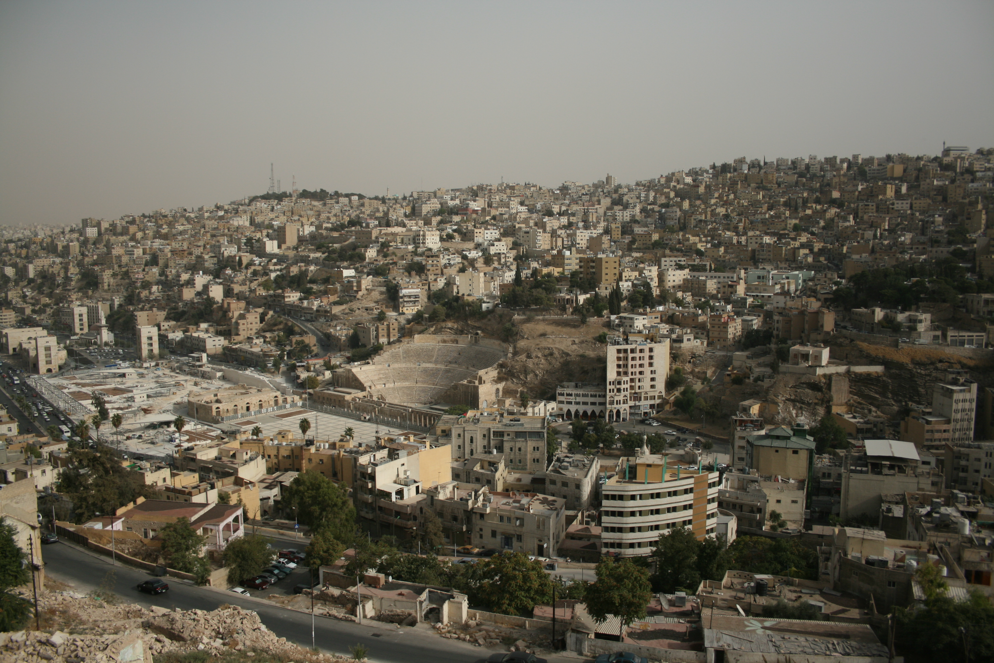 View from Amman Citadel, Jordan